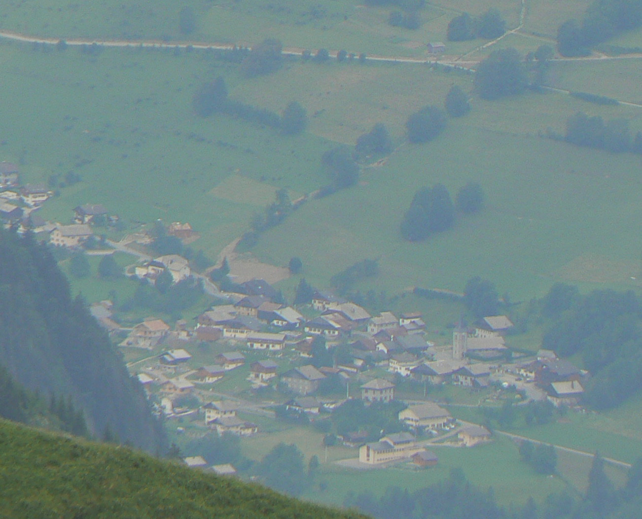 Bonnevaux - view from the Pelluaz mountain